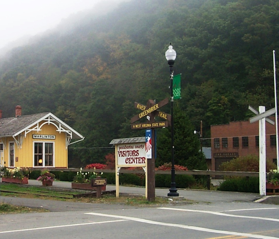 Photo Uploaded by M.L.W. (User:WVhybrid) Fall of '04 bicycle tour of WV.